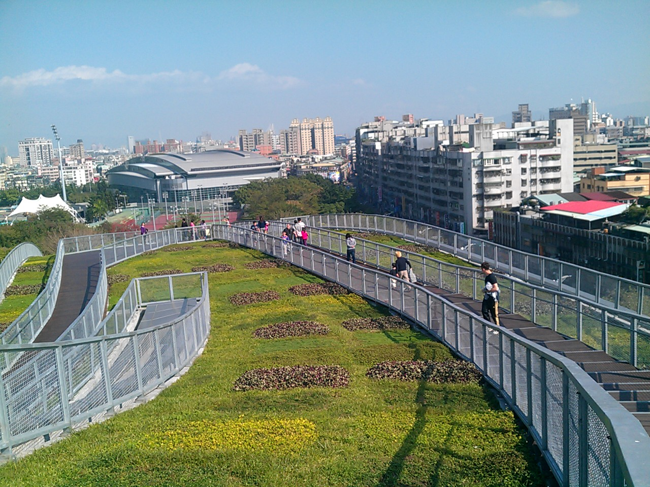 View from the roof of Xinzhuang Civil Sports Center 中文（台灣）: 新莊國民運動中心頂樓風景